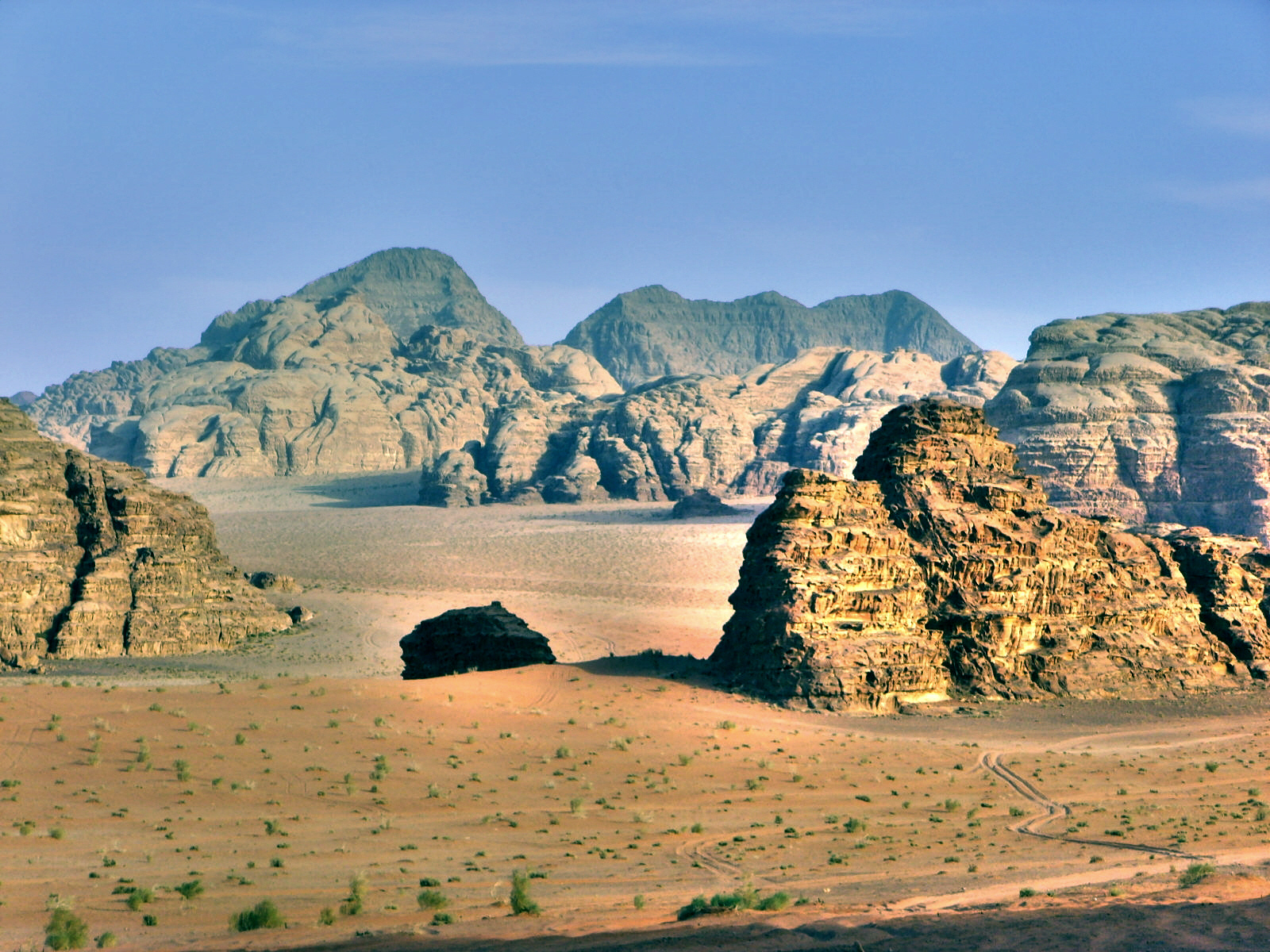 Wadi Rum